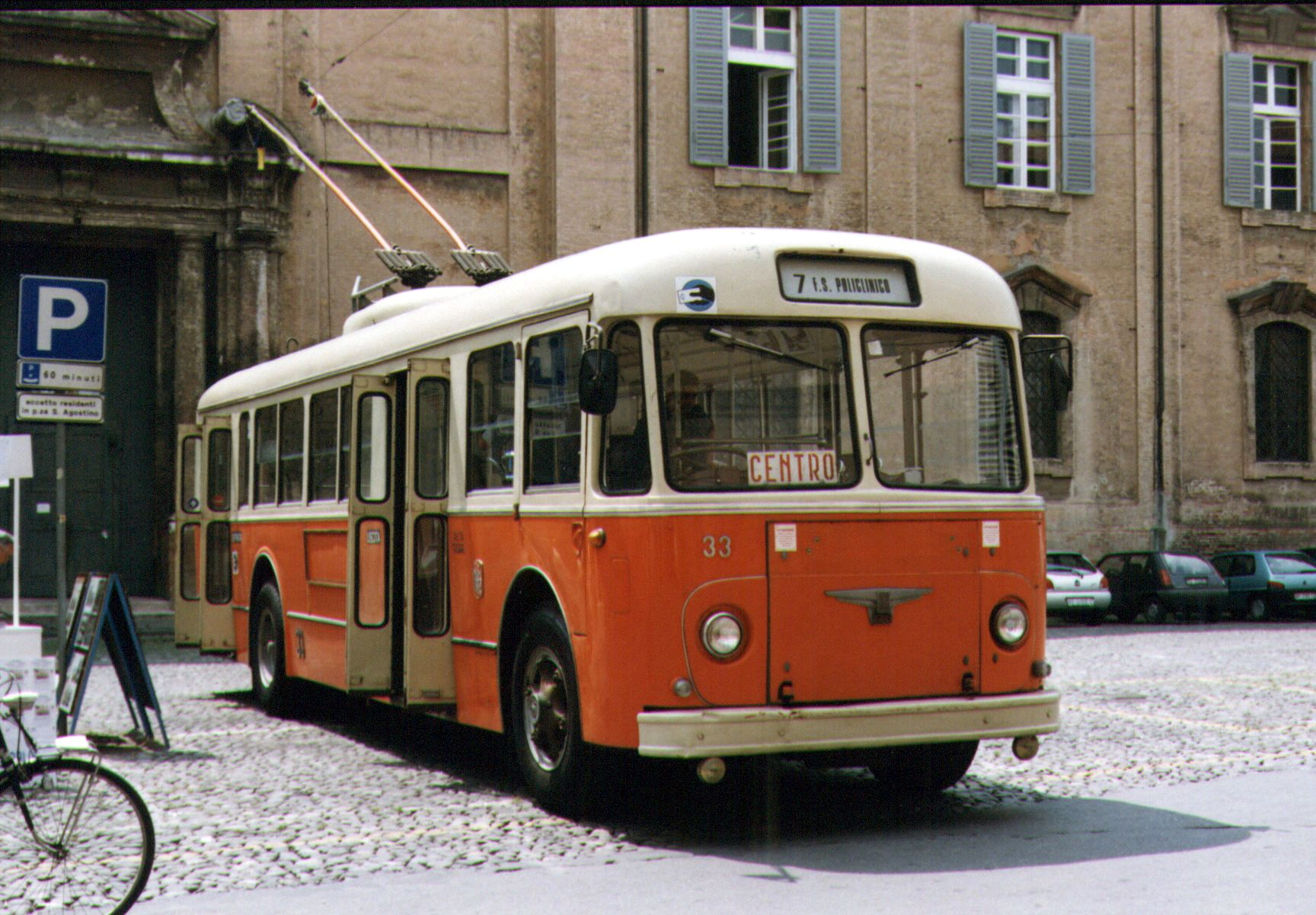 Modena trolleybus 33, a preserved 1959 Cansa-bodied Fiat 2411F trolleybus, on display at Largo Porta Sant'Agostino in the city centre (on the occasion of the reopening of the Modena trolleybus system after a 4-year suspension of service). It was still wearing the livery colors it wore in its final years in service. The last vehicles of this type were withdrawn from service in 1986. In 2009, No. 33 was repainted into a two-tone green livery, its original paint scheme.